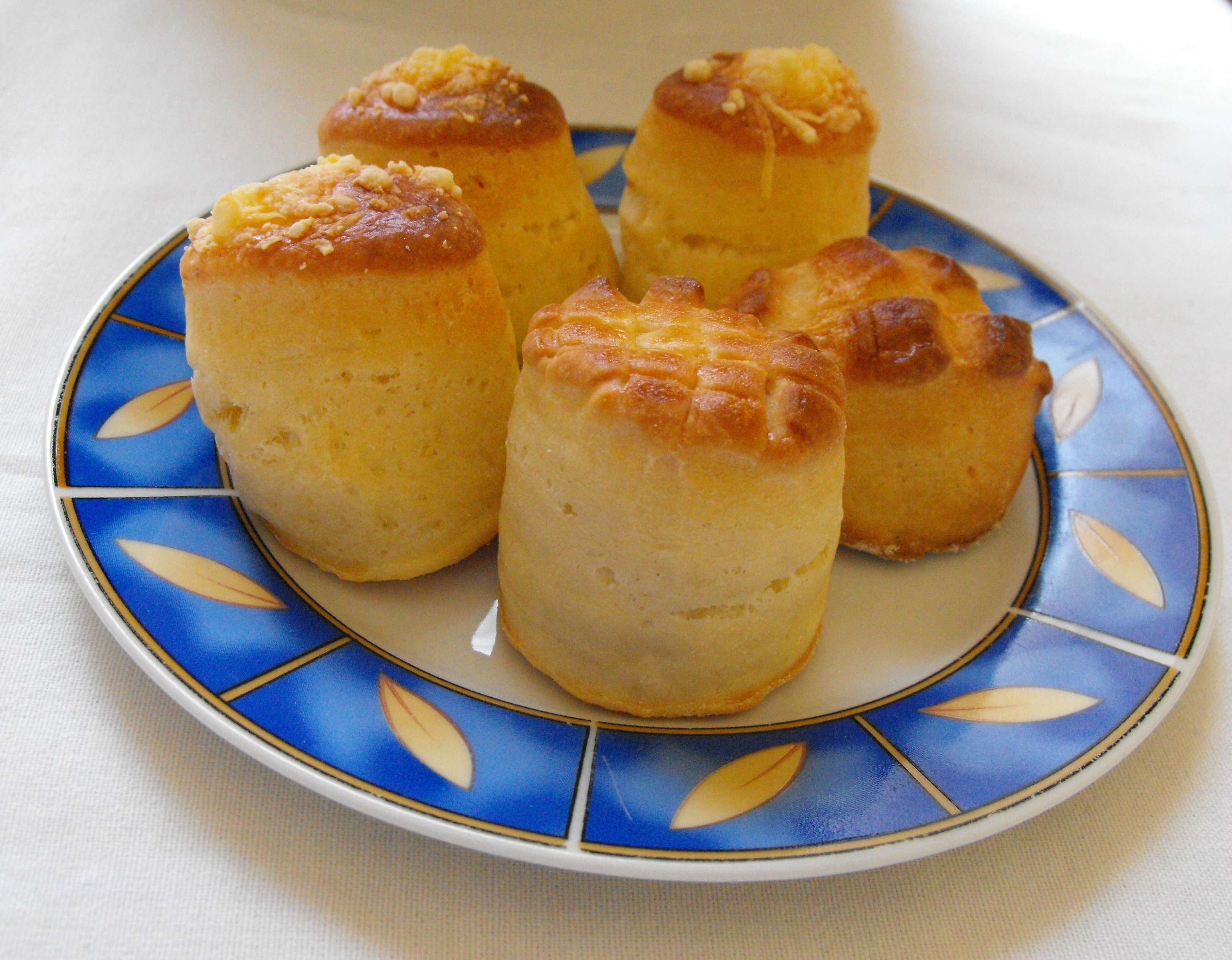 Some pogácsa, (pronounced [ˈpoga:tʃɒ]), a type of round, savory scone in Hungarian cuisine on a plate.